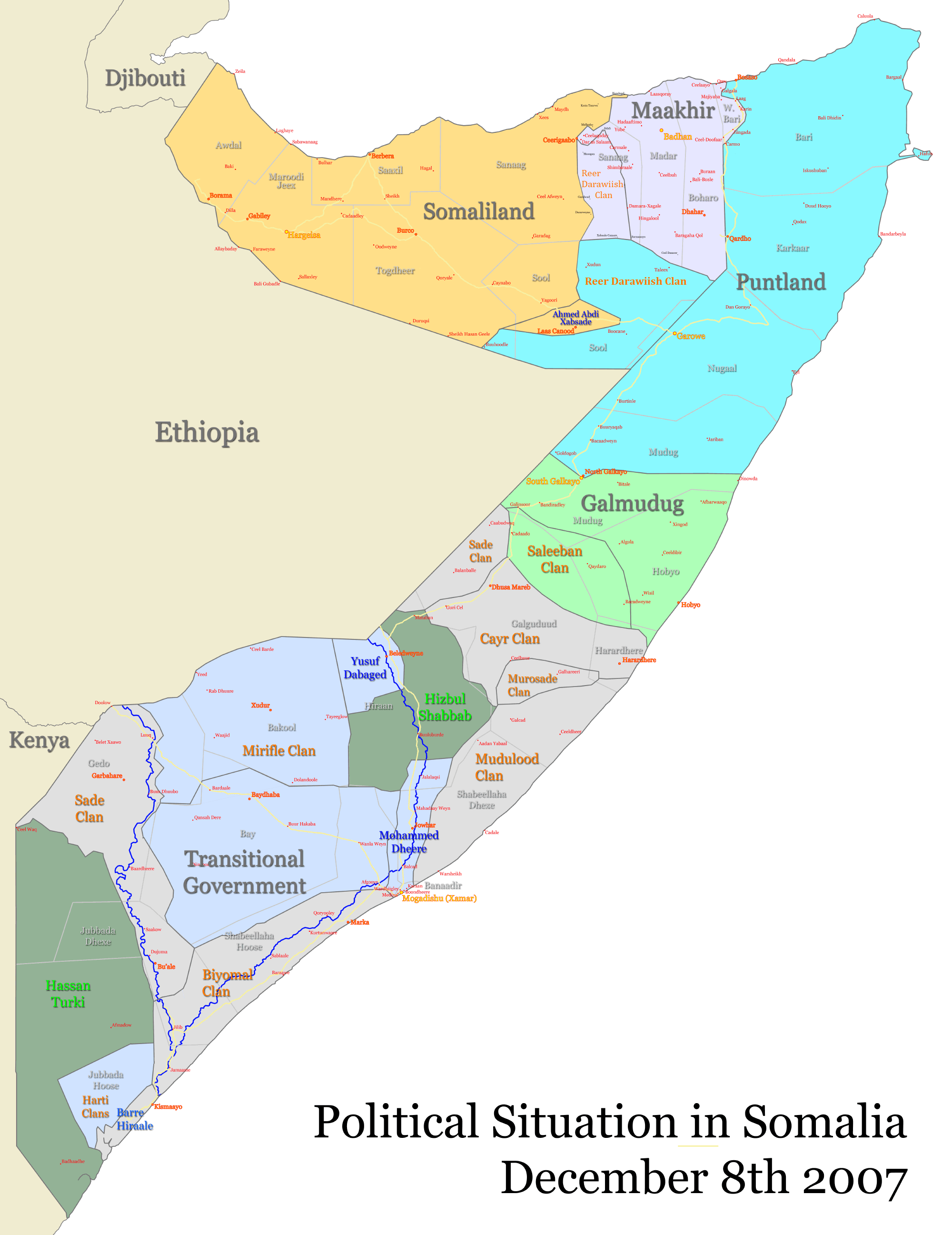 Political Situation in Somalia as of December 8th 2007